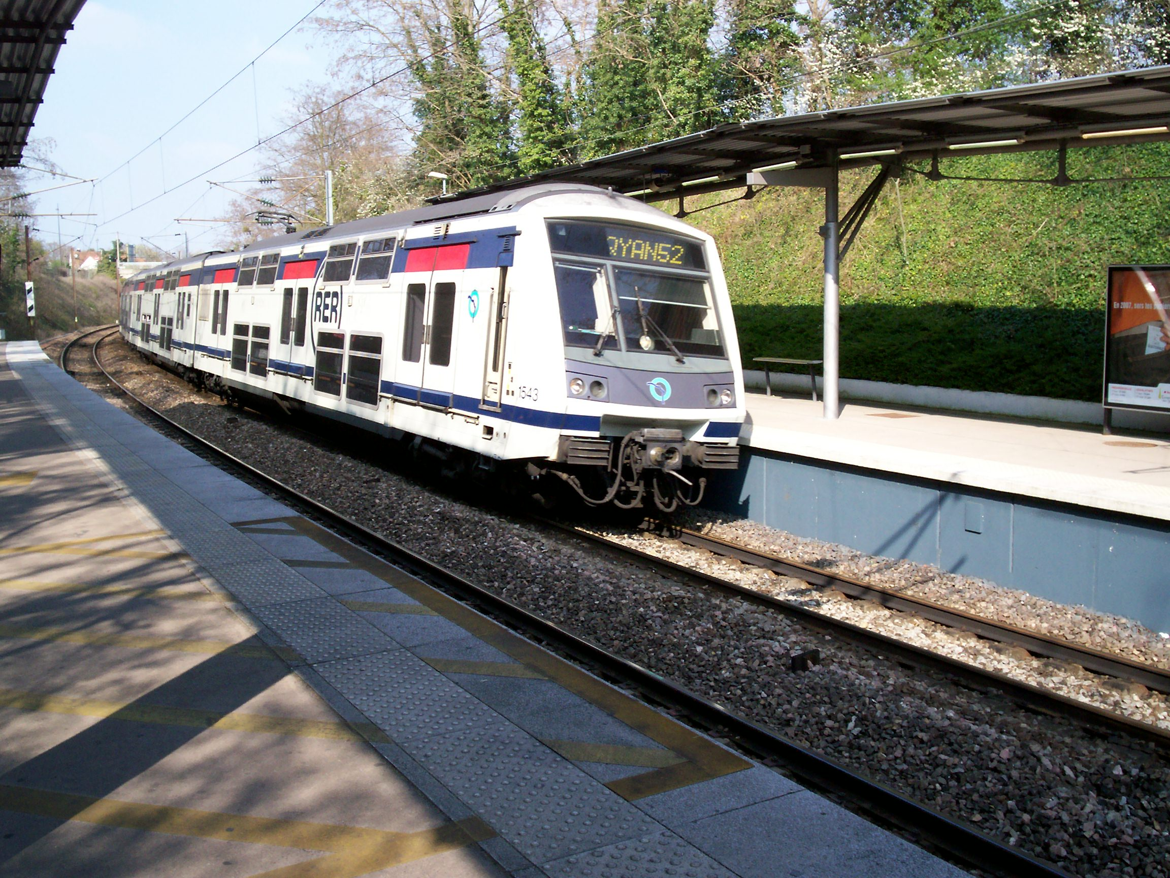 The service QYAN52 served by a MI2N Alteo at Neuville Université station, going to Marne-la-Vallée — Chessy.